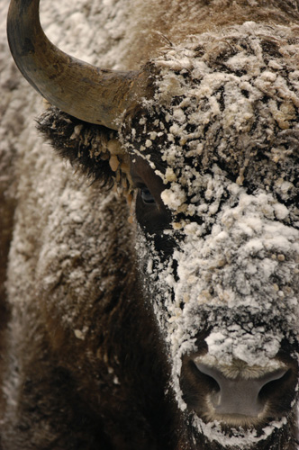 Wisent in sauerland From my website: Author- forestry department Rothaargebirge